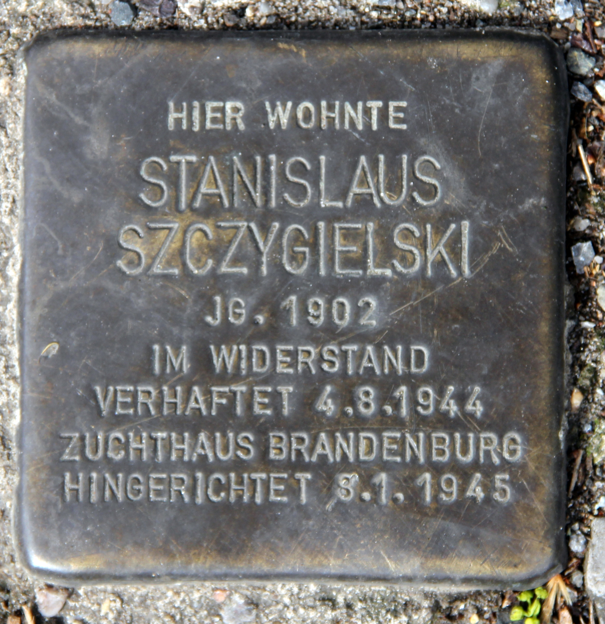 "Stolperstein" (stumbling block), Stanislaus Szczygielski, Cuvrystraße 12, Berlin-Kreuzberg, Germany